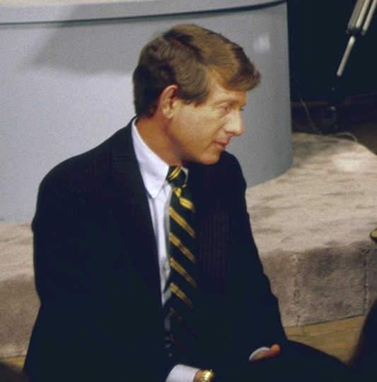 Ted Koppel at the University of Washington (Seattle) in 1982. Koppel was at the University of Washington for a special ABC News broadcast entitled "Viewpoint: A town meeting about TV news coverage of war".